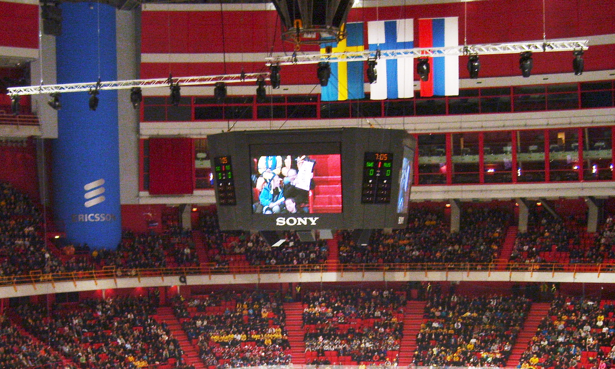 Teknikbrygga i Globen